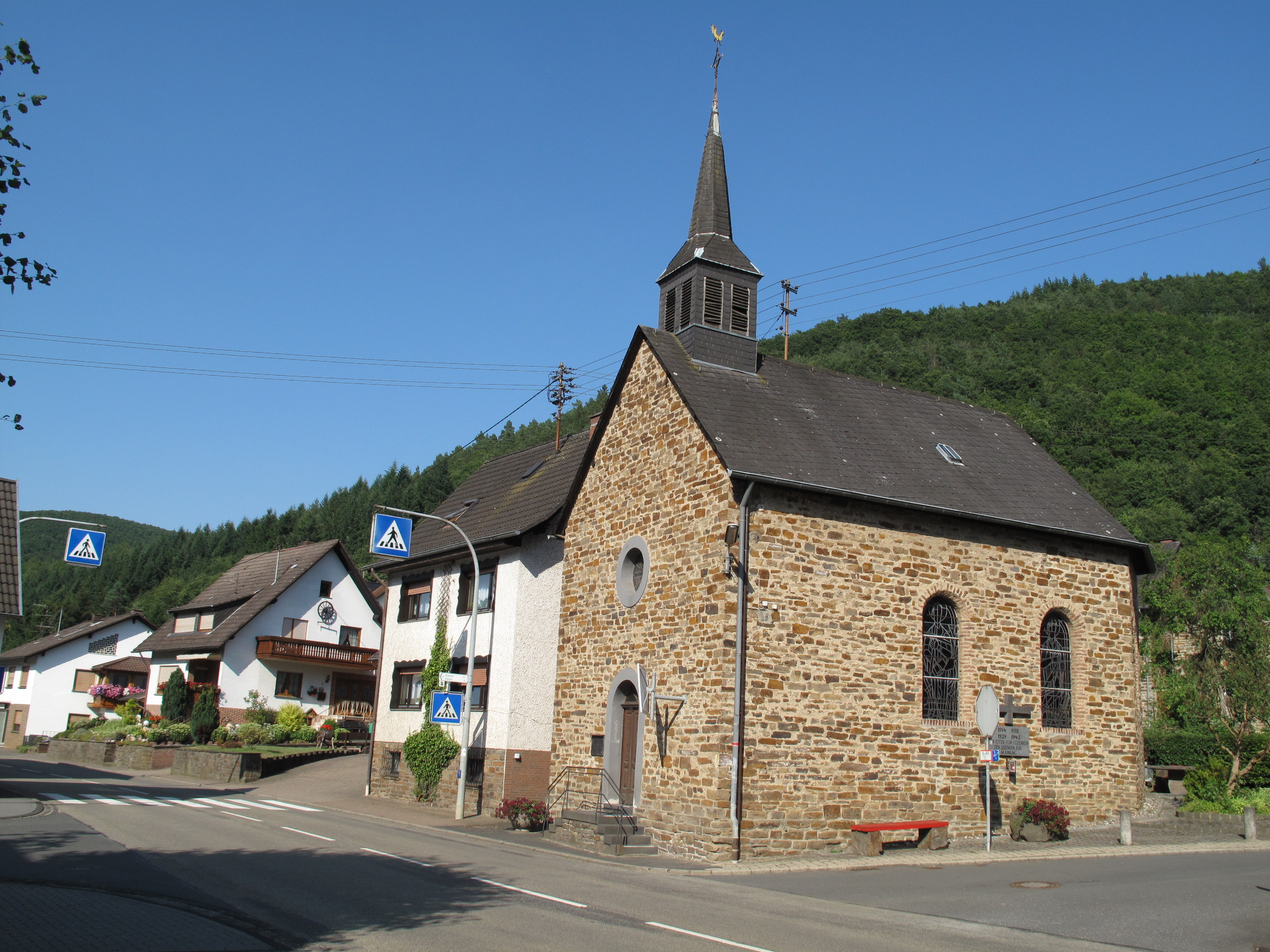 Niederadenau, church